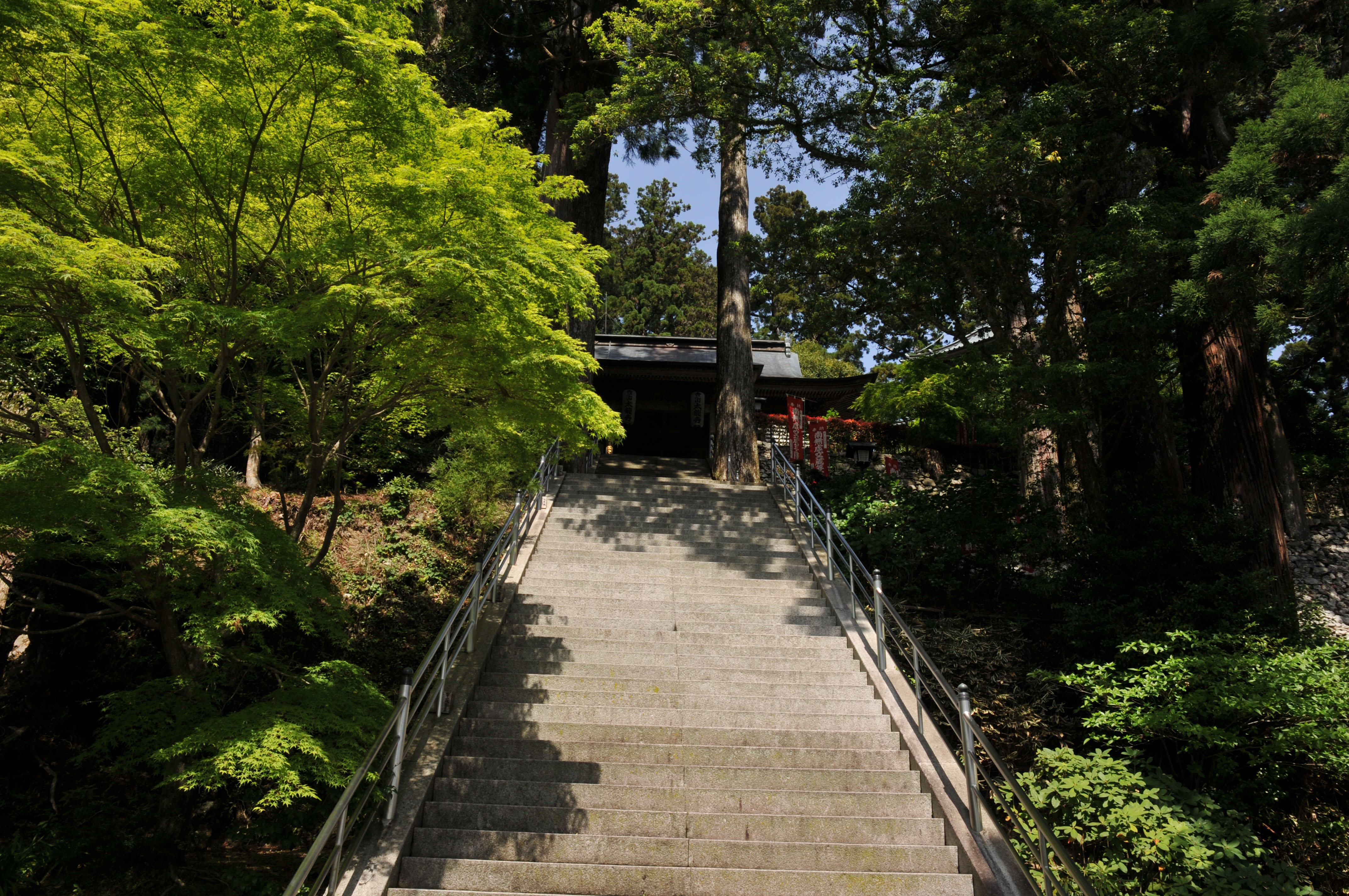 Stairway to the main temple from ropeway station, Tairyū-ji